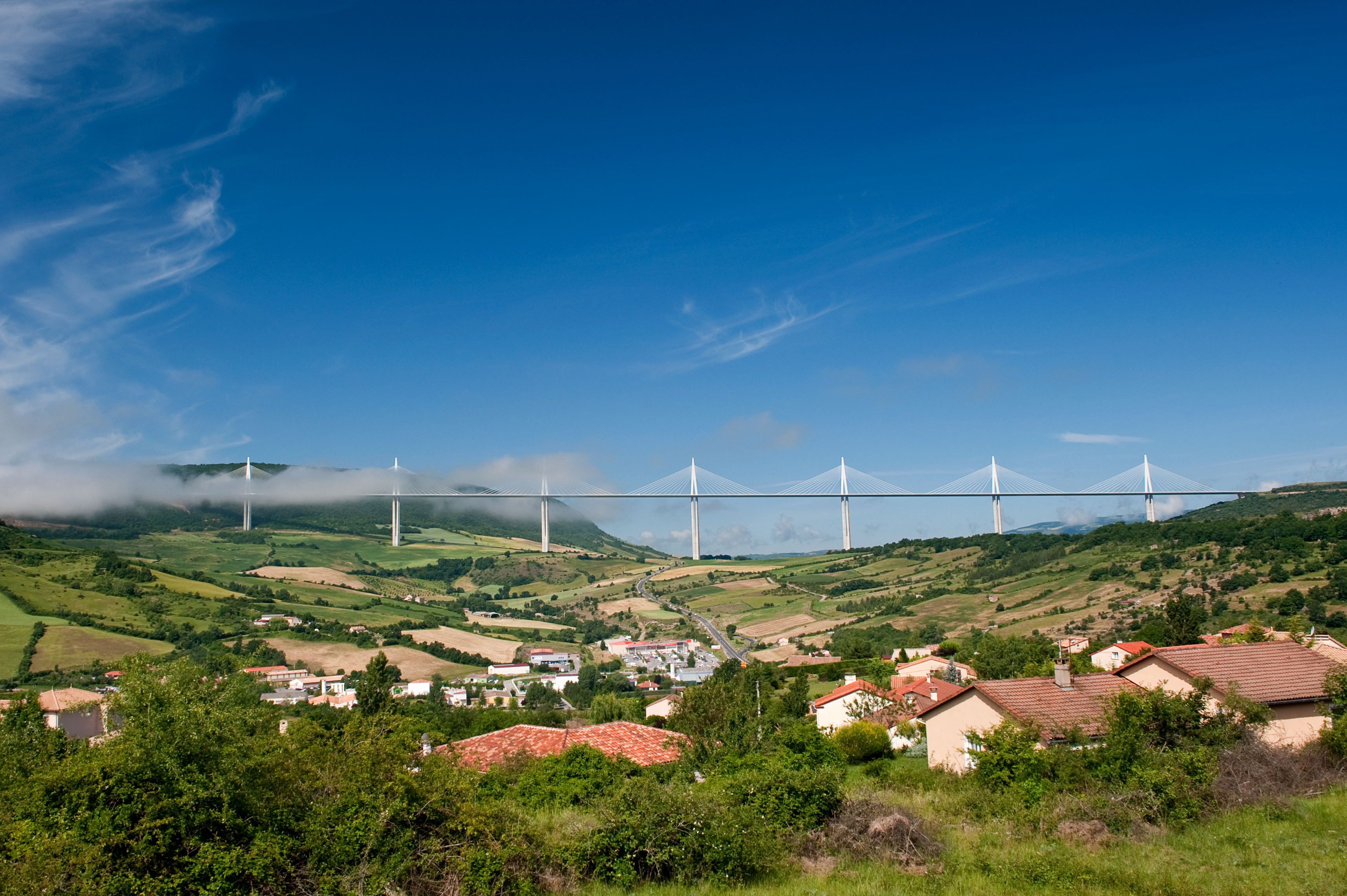 View of Creissels with the viaduct in the background.